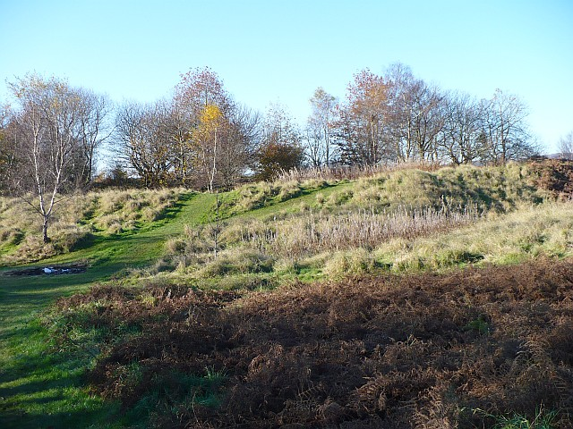 Tredegar Fort summit This is the highest part of a large Iron Age hillfort which is clearly visible when approaching Newport from the west on the M4 Motorway. For more details and an aerial photograph . The Sirhowy Valley walk crosses the summit of the fort.